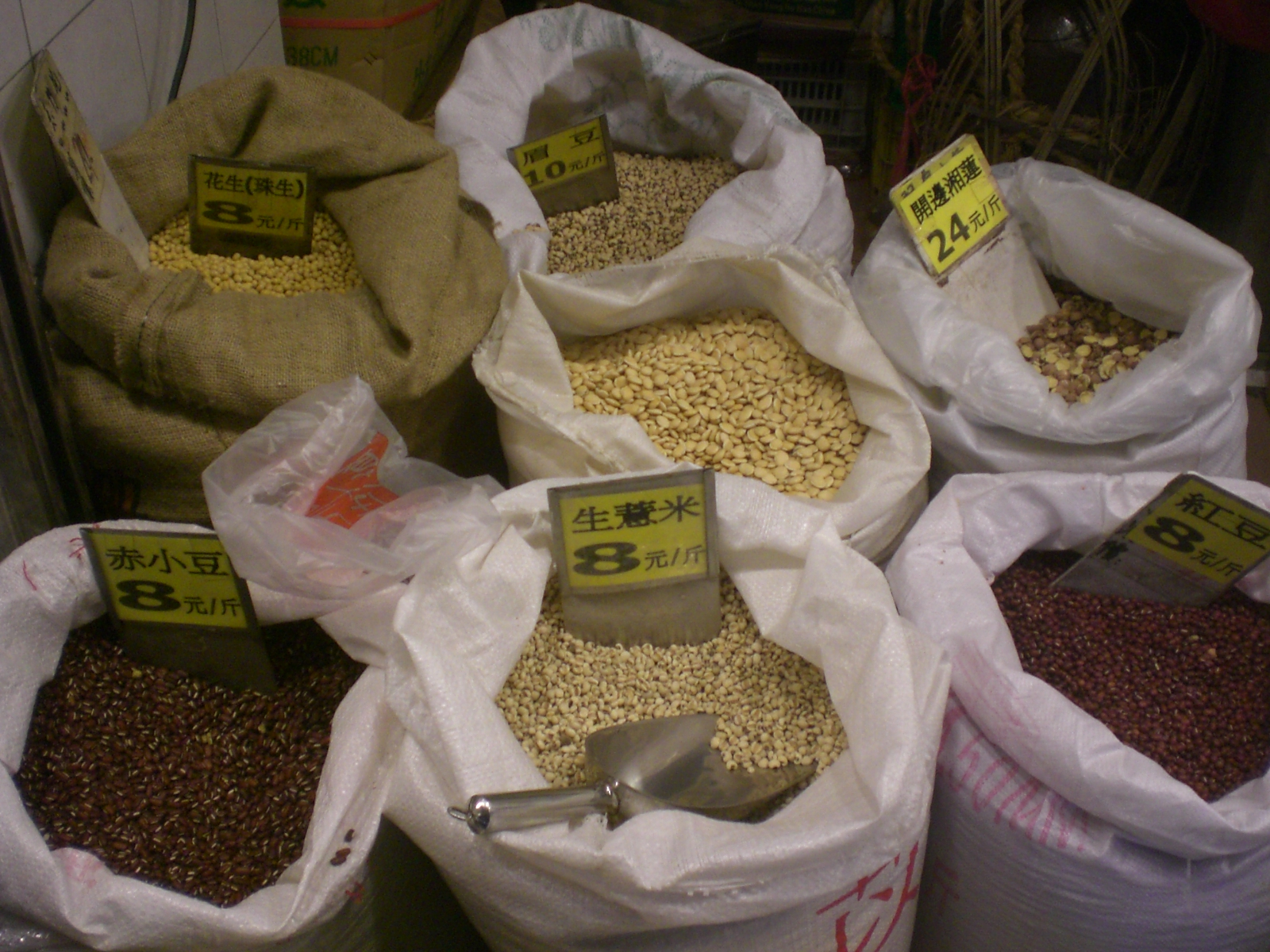 大角咀 塘尾道 商品店貨品